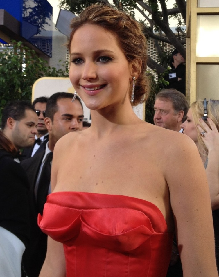 Jennifer Lawrence at the Golden Globes 2013.